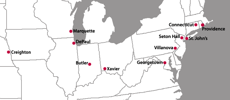 20130320BigEastLocations.png